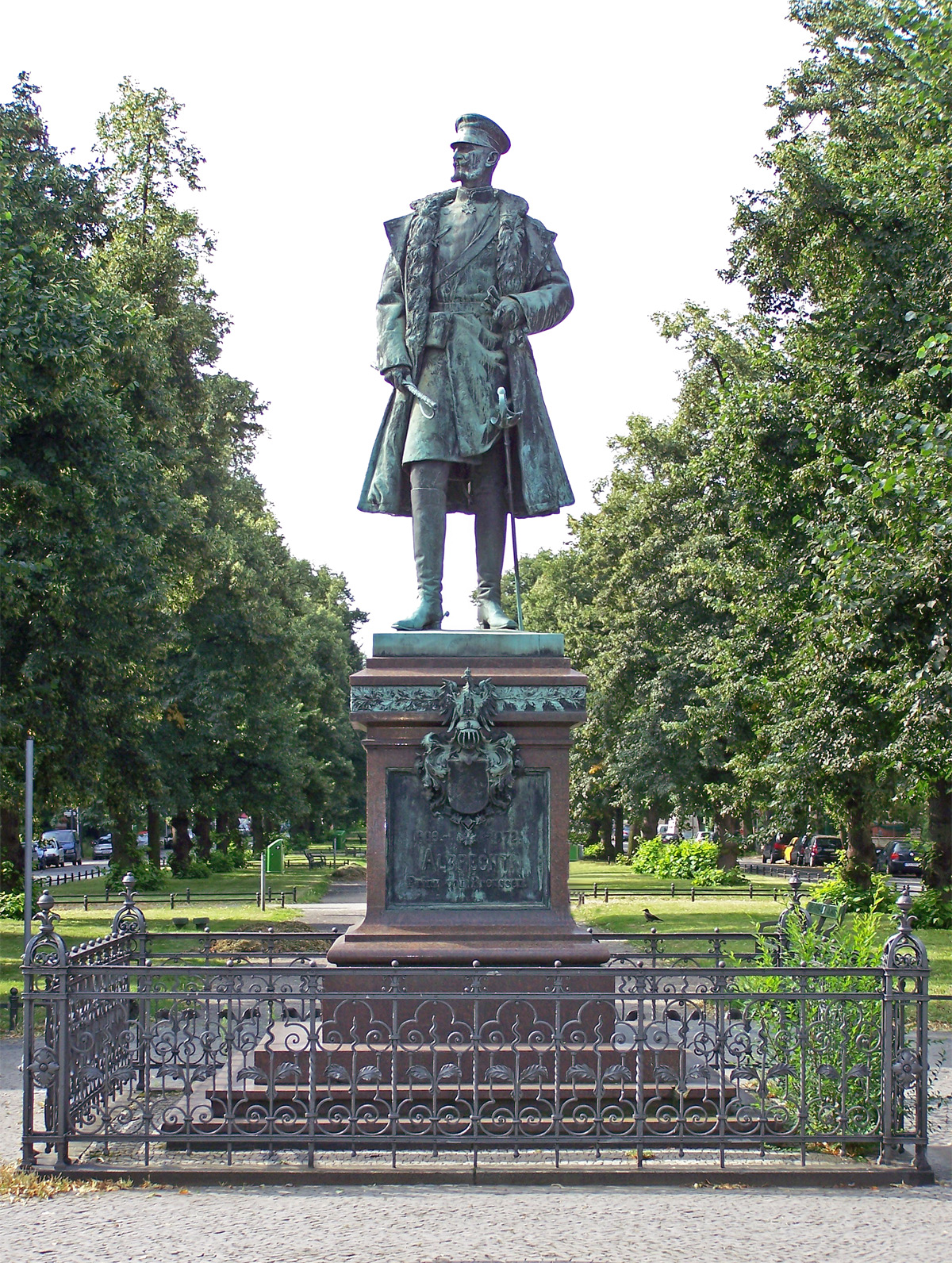 Monument to Prince Albrecht of Prussia (1809–1872), opposite to Schloss Charlottenburg, Berlin, sculpted by Eugen Boermel